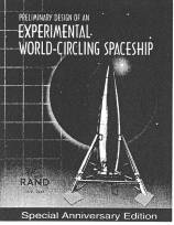 Image from the public domain book The Air Force Role In Developing International Outer Space Law by Delbert R. Terrill Jr.. Caption reads, "Cover of Preliminary Design of an Experimental World-Circling Spaceship" (referring to a publication of RAND Corporation)